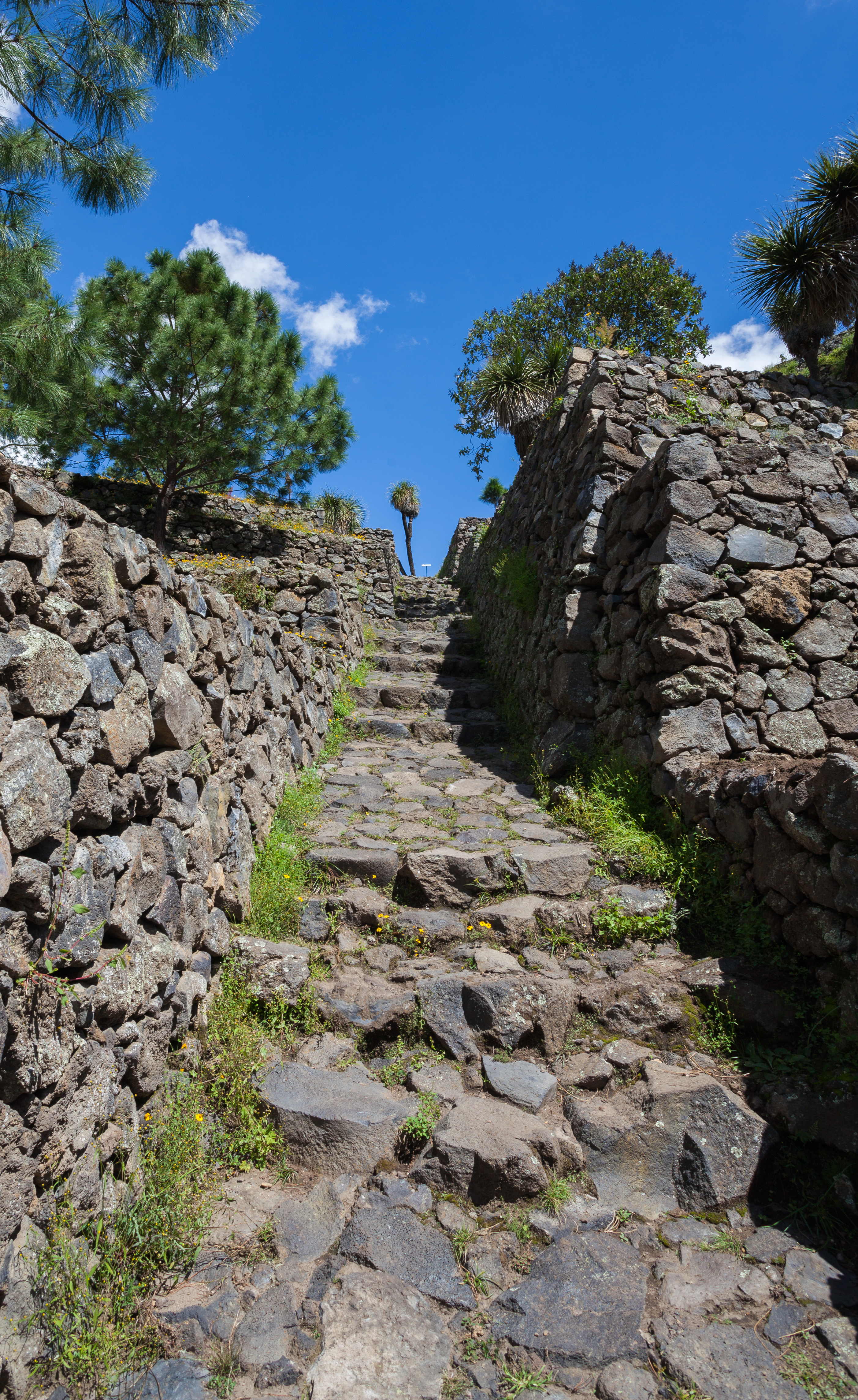 Archaeological area of Cantona, Puebla, Mexico